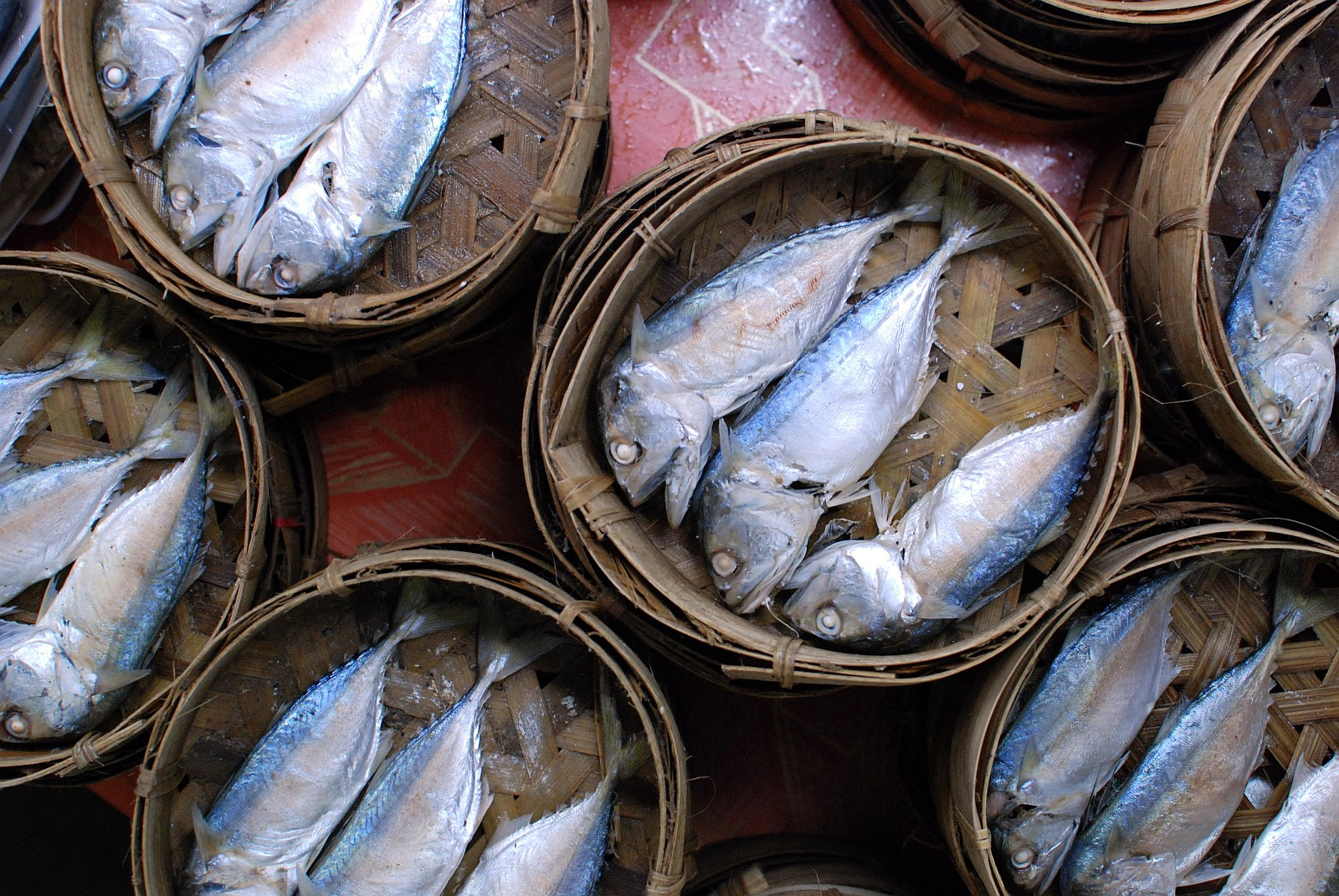 Pla thu (Thai: ปลาทู): steamed and salted short mackerel (rastrelliger brachysoma) sold at Thanin market in Chiang Mai, Thailand. This fish is most often eaten fried as one of the dishes together with nam phrik kapi, a Thai dipping sauce made with chillies and shrimp paste. The fish in the bamboo steamers on this photo are about 12 centimetres (5 inches) in length.